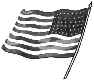 1st Aero Squadron, Emblem adapted during World War I service in France